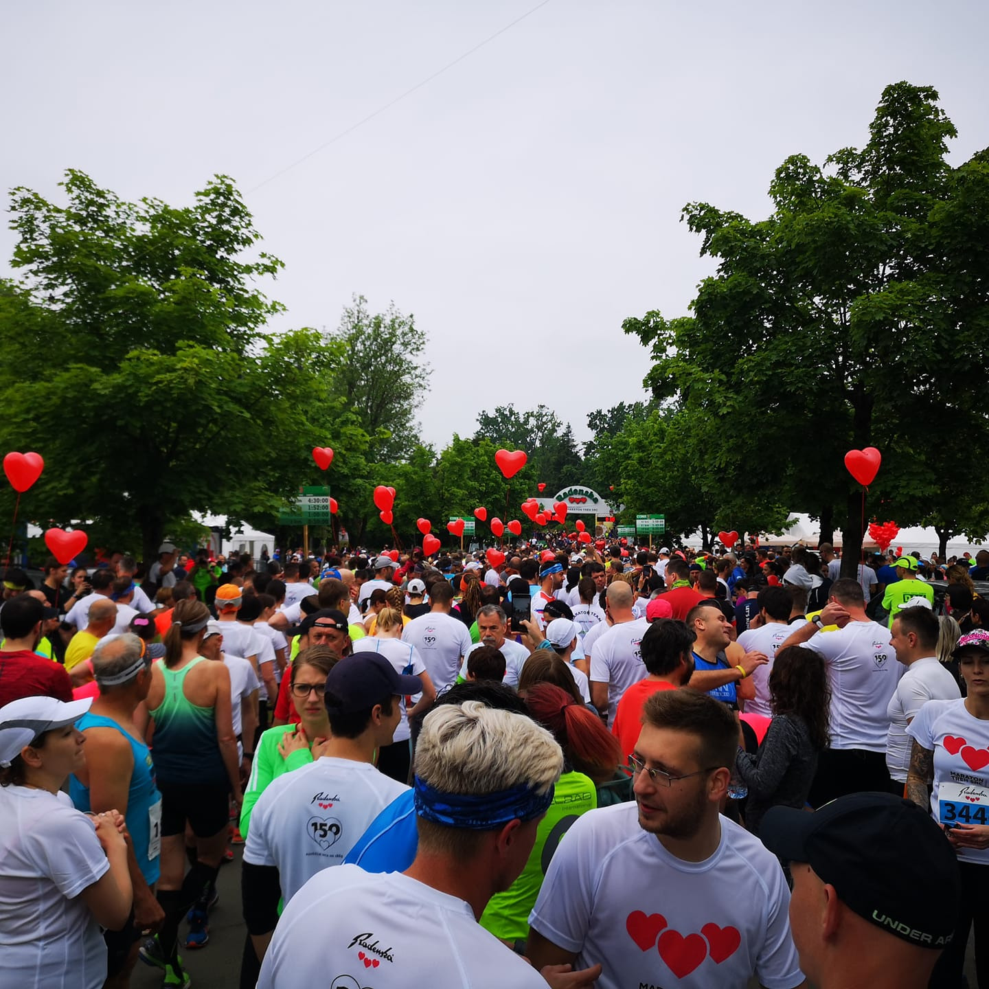 The 39th Three Hearts Marathon. Before the start.